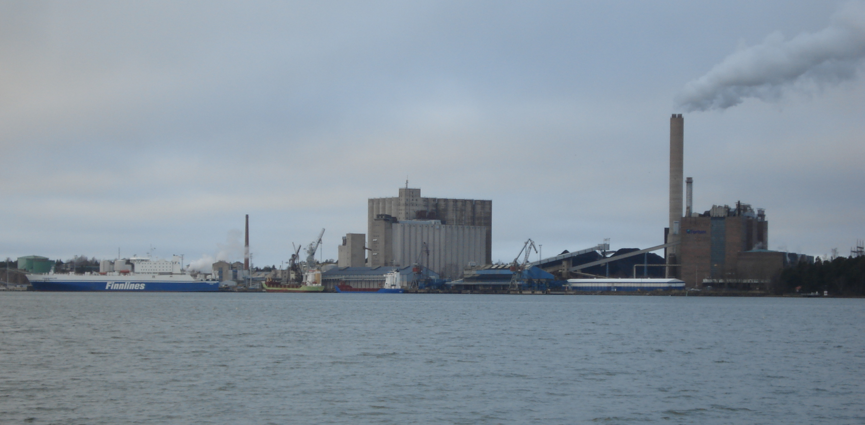 Port of Naantali, Naantali, Finland. In the middle of the image is Finnish largest silo and on the right side is one of the largest Nordic countries coal power plant. Ship on the left: Finnsailor Flag: Sweden IMO Number: 8401444 MMSI Number: 265038000 Callsign: SBHY Length: 157,6 m Beam: 25,3 m